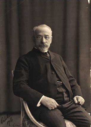 Danish banker, businessman, and politician Isak Moses Hartvig Glückstadt (1839-1910)